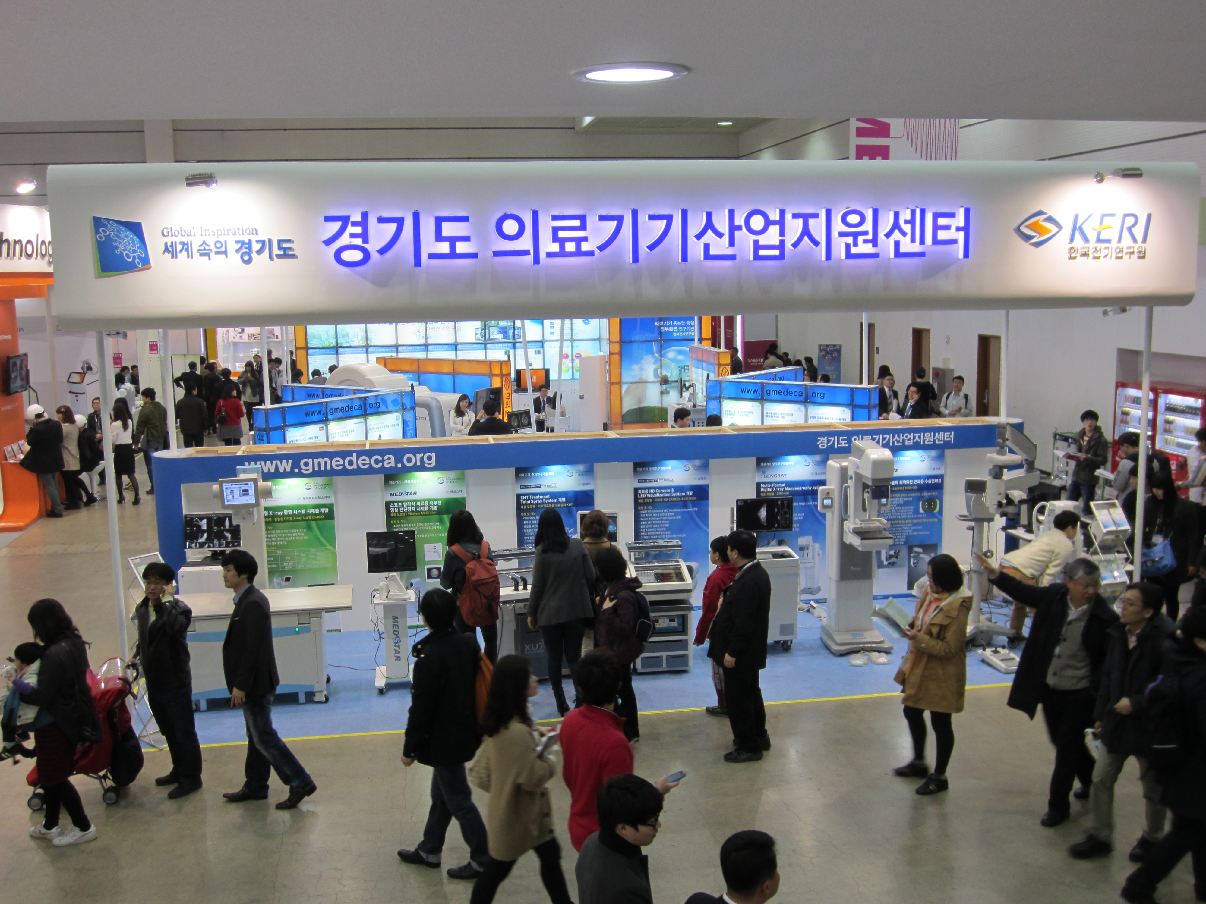 GMEDECA hall at KIMES